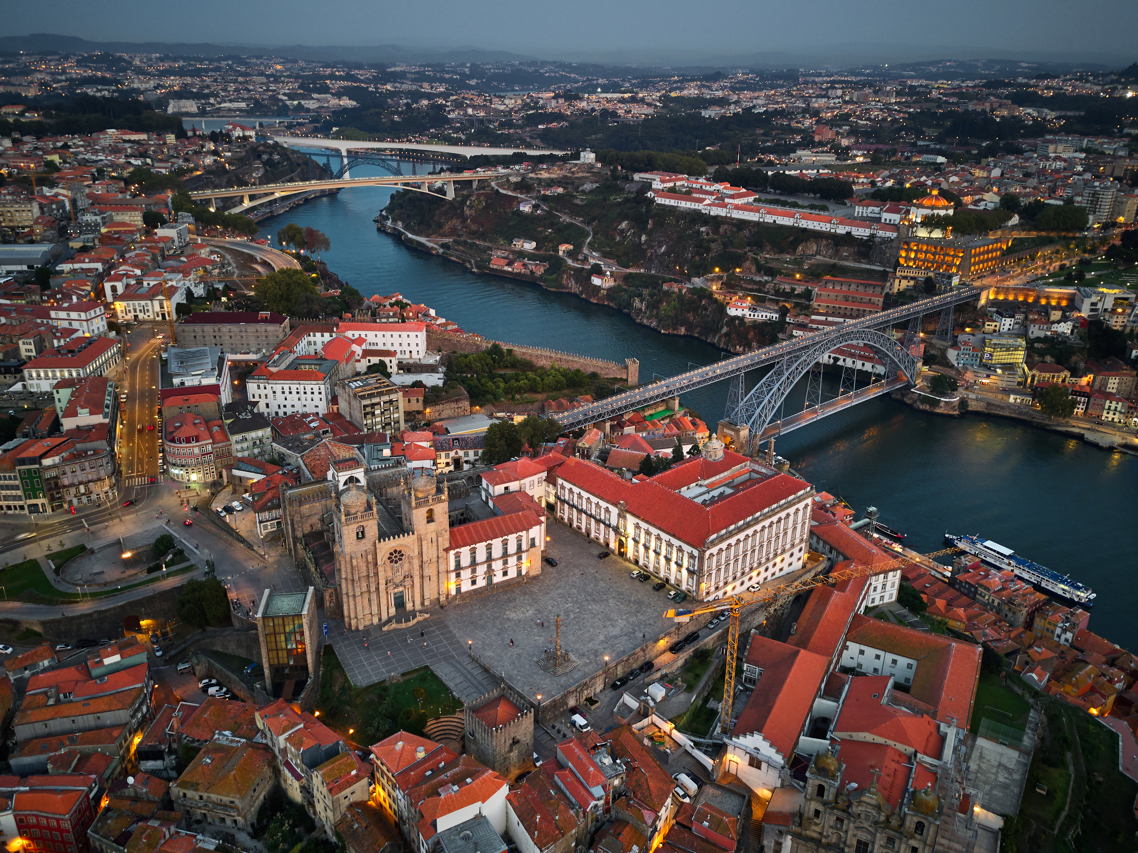 The Porto Cathedral